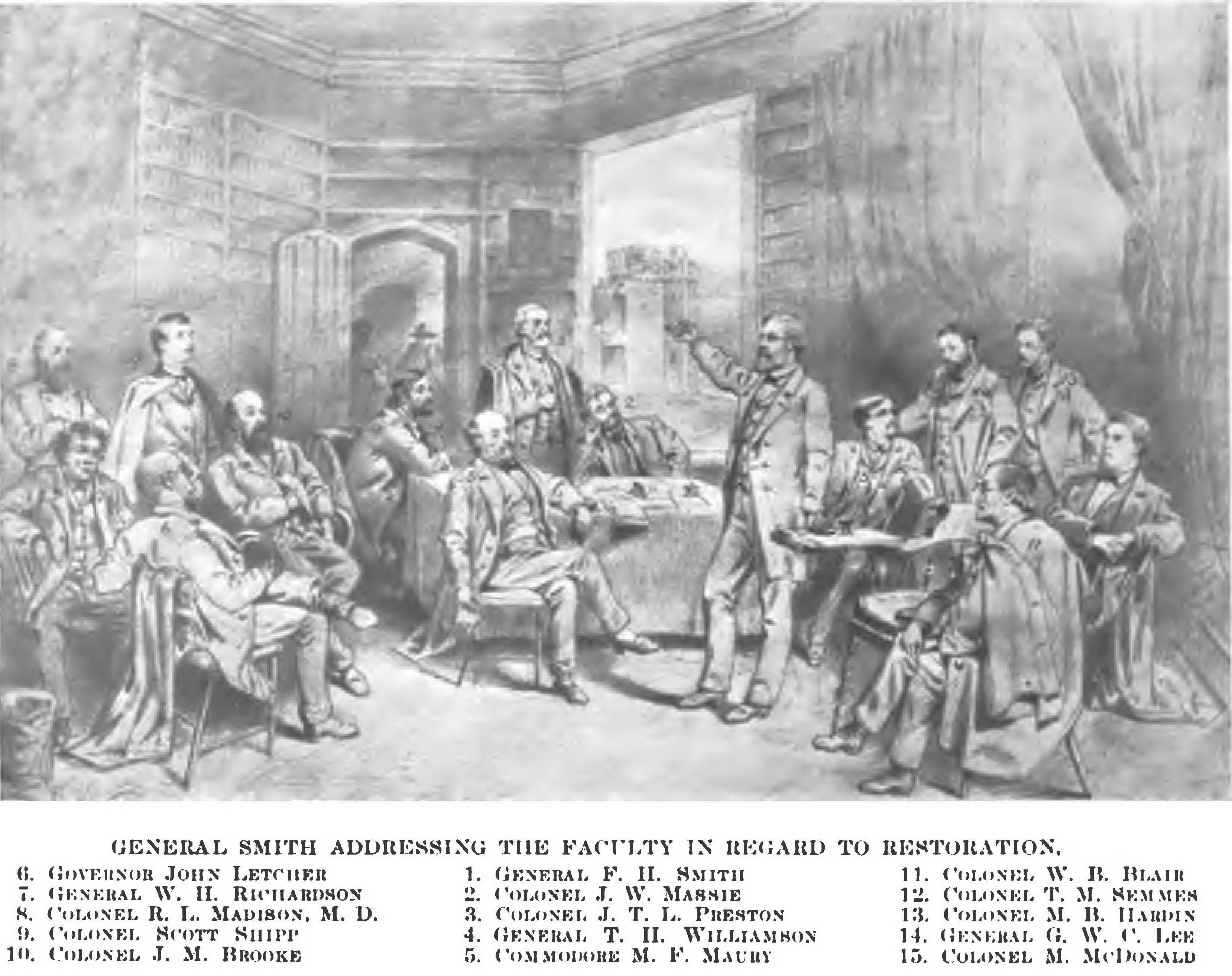 Major-General of Virginia militia Francis Henney Smith was VMI's superintendent, 1839-1899. From The Virginia Military Institute, It's Building and Rebuilding]. Author: General Francis Henney Smith, the Superintendent of V.M.I. 1912.